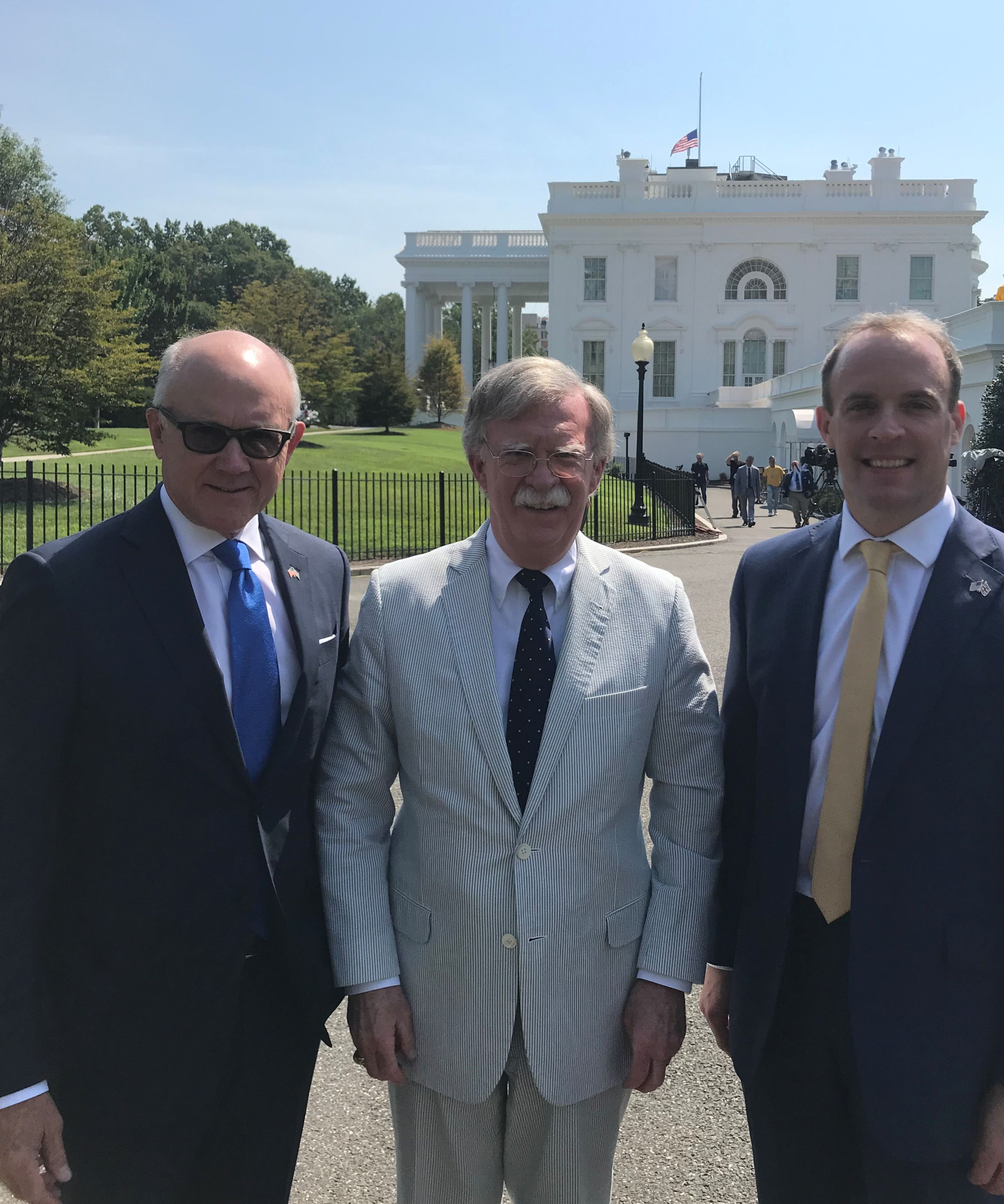 Great meeting with UK Foreign Secretary Dominic Raab and US Ambassador to the UK Woody Johnson today. The US-UK special relationship is strong and will become stronger yet, including on trade, global security, and cutting edge technologies such as 5G.